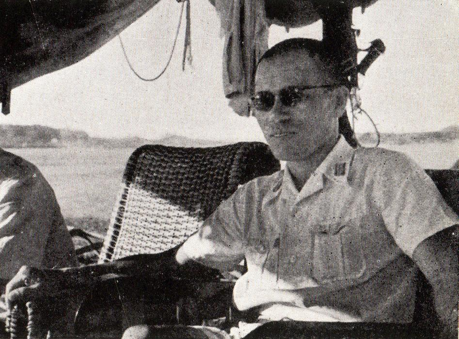 Major_General_Tateo_Kato_(Imperial_Army).